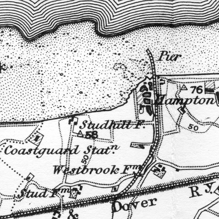 Part of 1878 OS map (inch-map; England and Wales sheet 273) of Hampton-on-Sea in East Kent, England, showing oyster fishery buildings and fishponds, although the workers' houses are not shown on this inch-map. It does, however, show that the tramway did not go in a straight line south to the railway line, but diverted to the west, reaching the line it where the Westbrook crosses it. In 1866, the oyster fisheries company told an enquiry commission that it had not yet extended the tramway along the pier, but this map shows the tramway along the pier by 1878. This map shows early stages of coastal erosion initiated by the construction of the pier in 1865. The high water level on the north coast to the east of the pier is moving north as the beach material mounts up; the coastline to the west of the pier is being eroded away and is moving south. For progression of building and erosion, compare this map with: File:OS map Hampton 1872 004.jpg File:OS map Hampton 1898 002.jpg File:Hampton 1978 001b.jpg